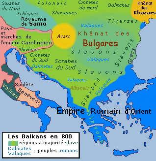 Historic map of Balkan peninsula, year 800